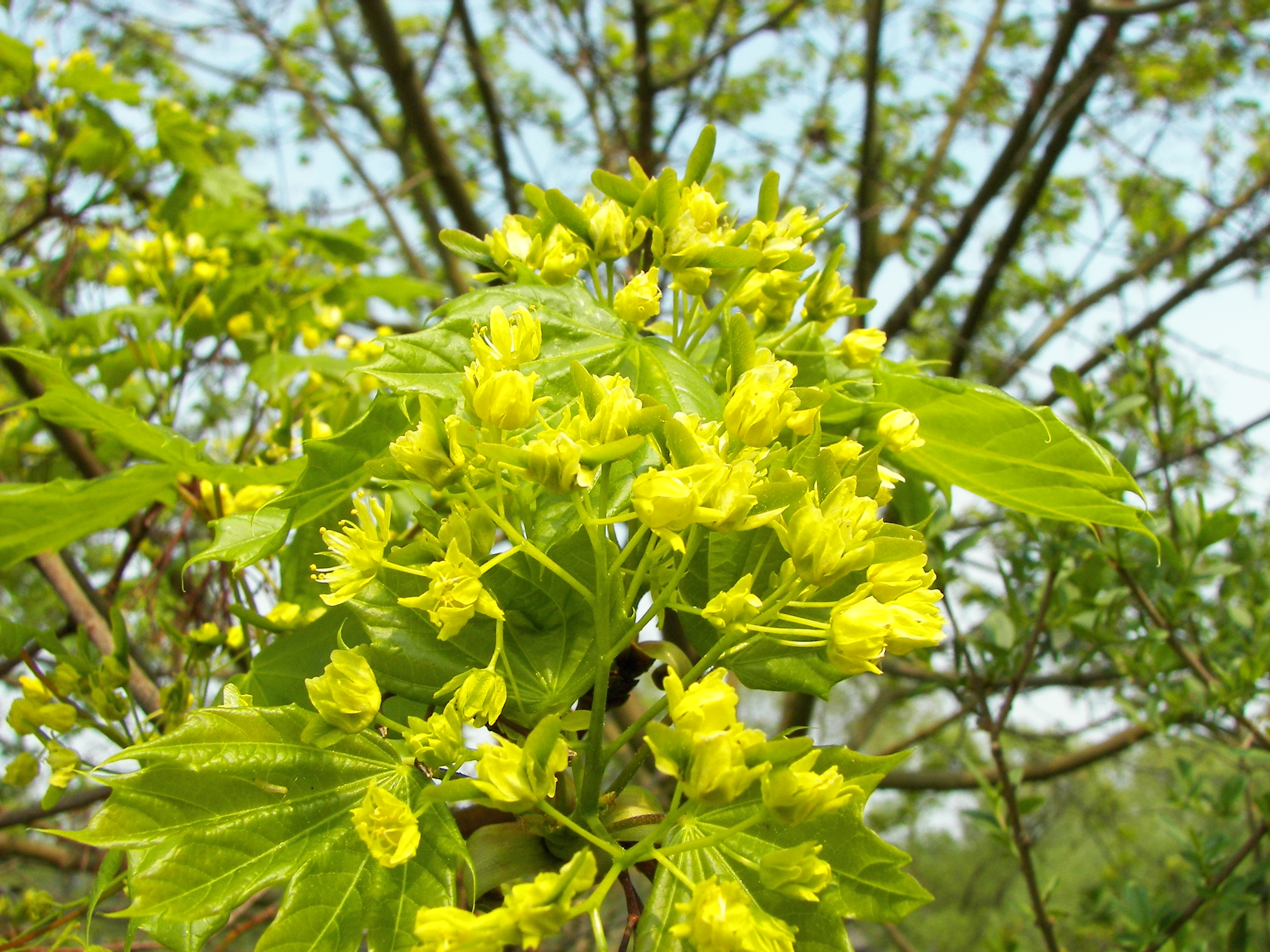 Norway Maple (Acer platanoides), Flowers, Location: Marburg, Hesse, Germany